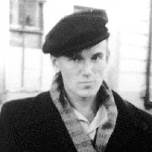 Svyatoslav Richter